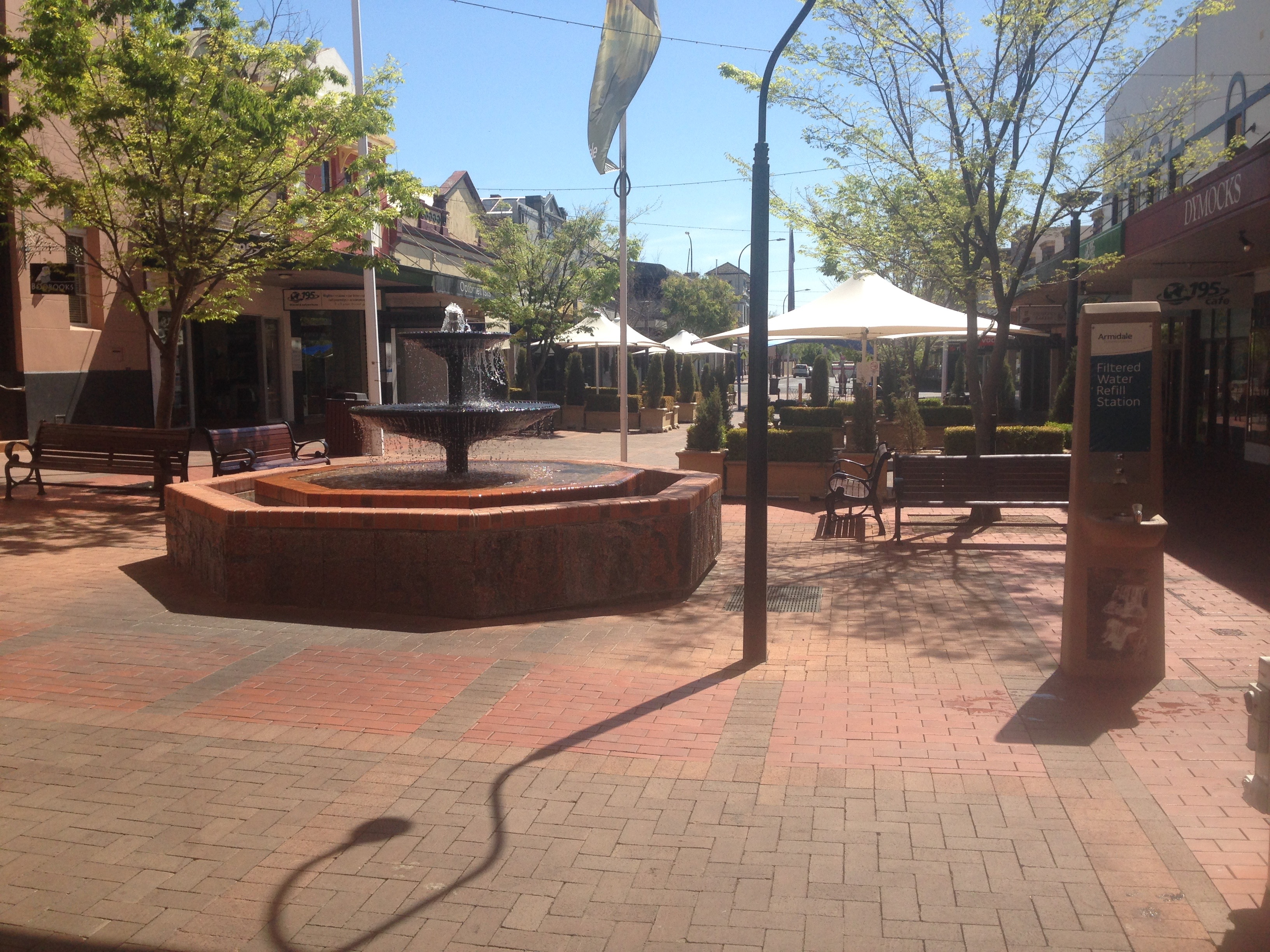 A photograph of the Beardy St Mall in Armidale, New South Wales on a public holiday.